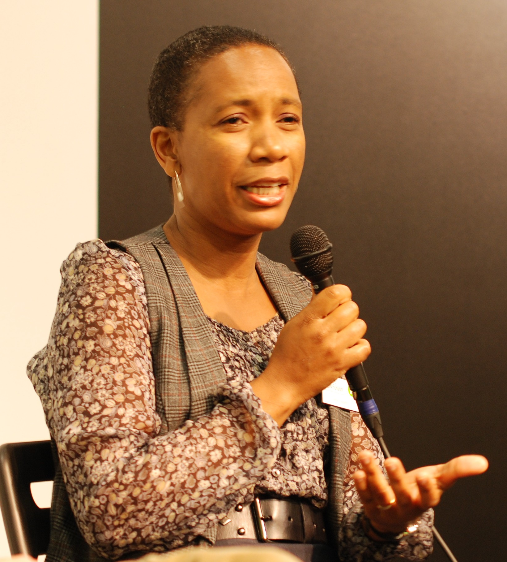 Zimbabwean writer Irene Sabatini at the Göteborg Book Fair 2010